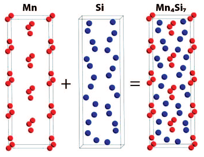 Mn4Si7 crystal structure, based on Knott H.W., Mueller M.H., Heaton L. Acta Crystallogr., 1967, 23, 549-555